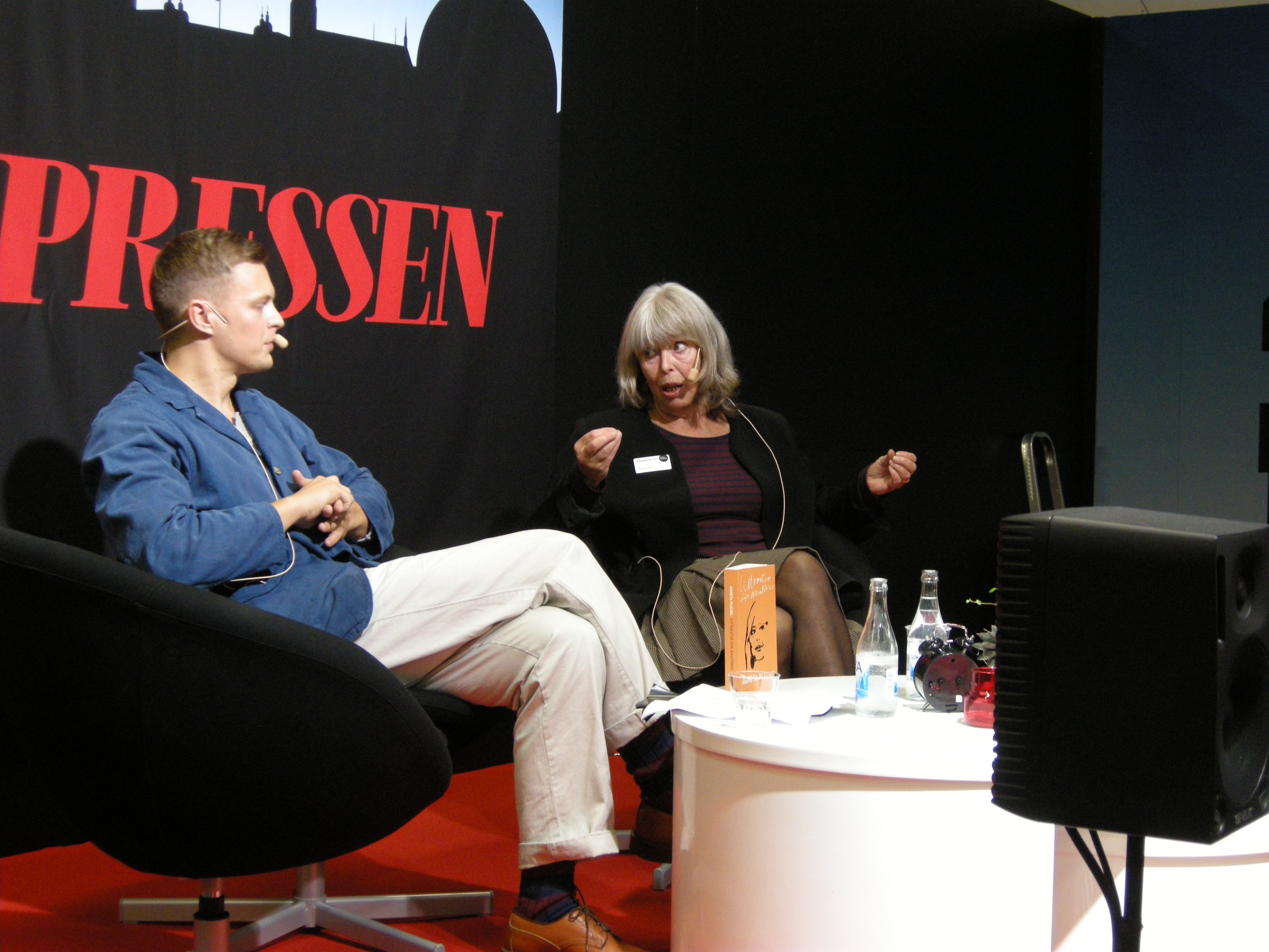 Swedish writer Agneta Pleijel at Göteborg Book Fair 2012